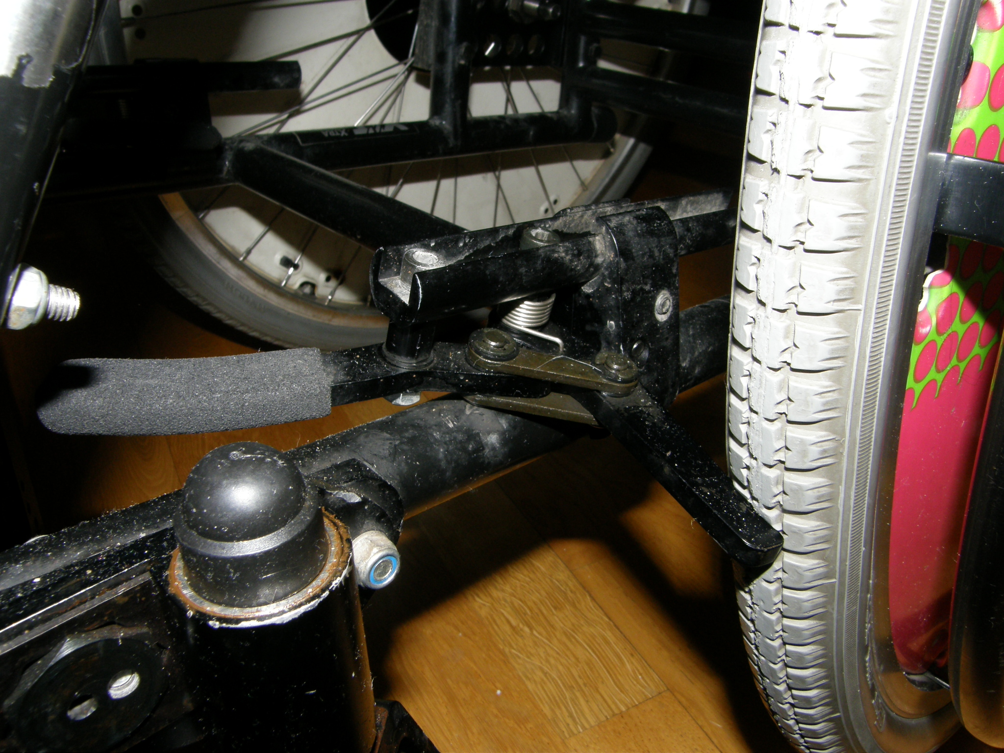 Wheelchair brake (scissors)